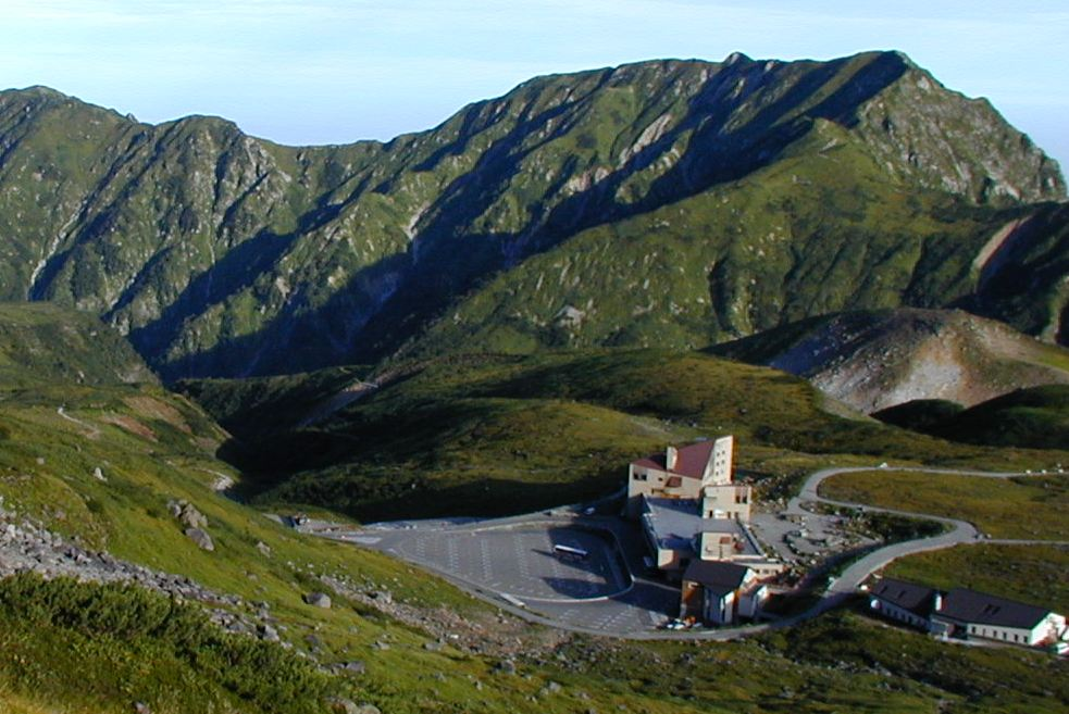 Murodo Terminal and Hotel Tateyama in Murodo, Tateyama Town, Toyama Prefecture, Japan